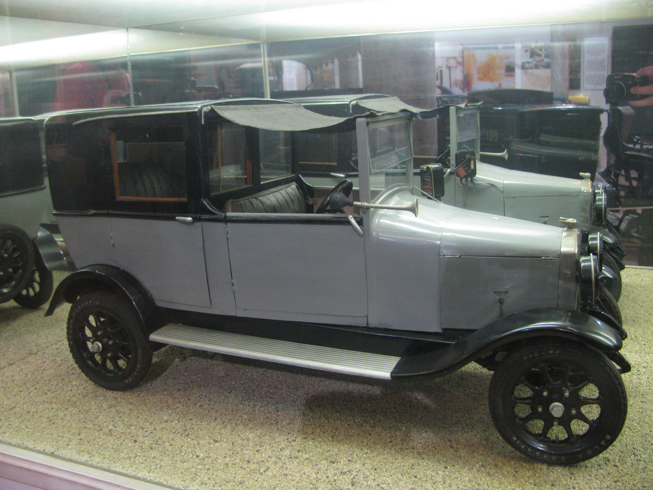 Model illustrating of a Magomobil cab model made from 1924. The chassis was produced by Magyar Általános Gépgyár and the bodywork typically by various coachbuilders.